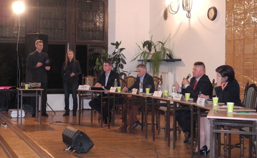 Debate on the president of the city of Olsztyn